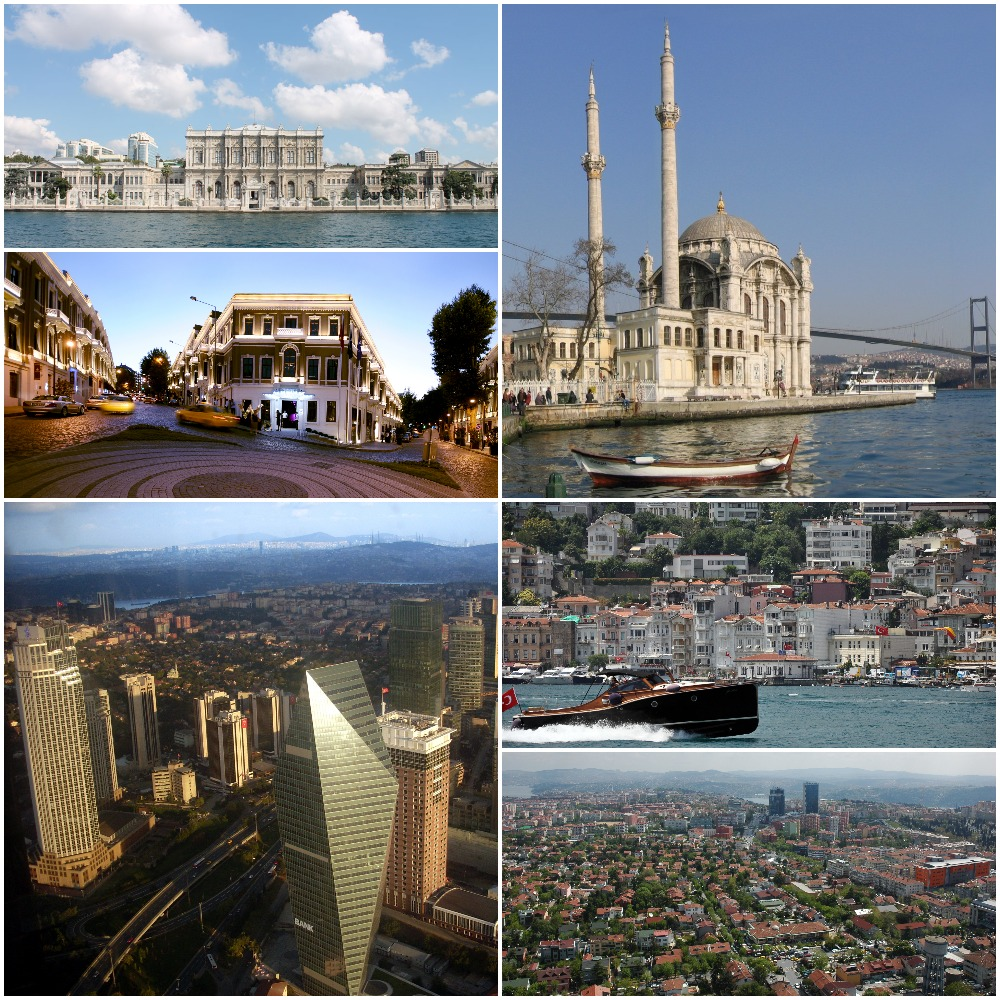 Clockwise from top: Ortaköy Mosque, Arnavutköy, Levent and Etiler, part of Büyükdere Avenue, Akaretler Row Houses, Dolmabahçe Palace